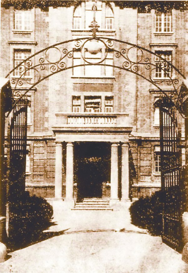 Red Building, National Peking University